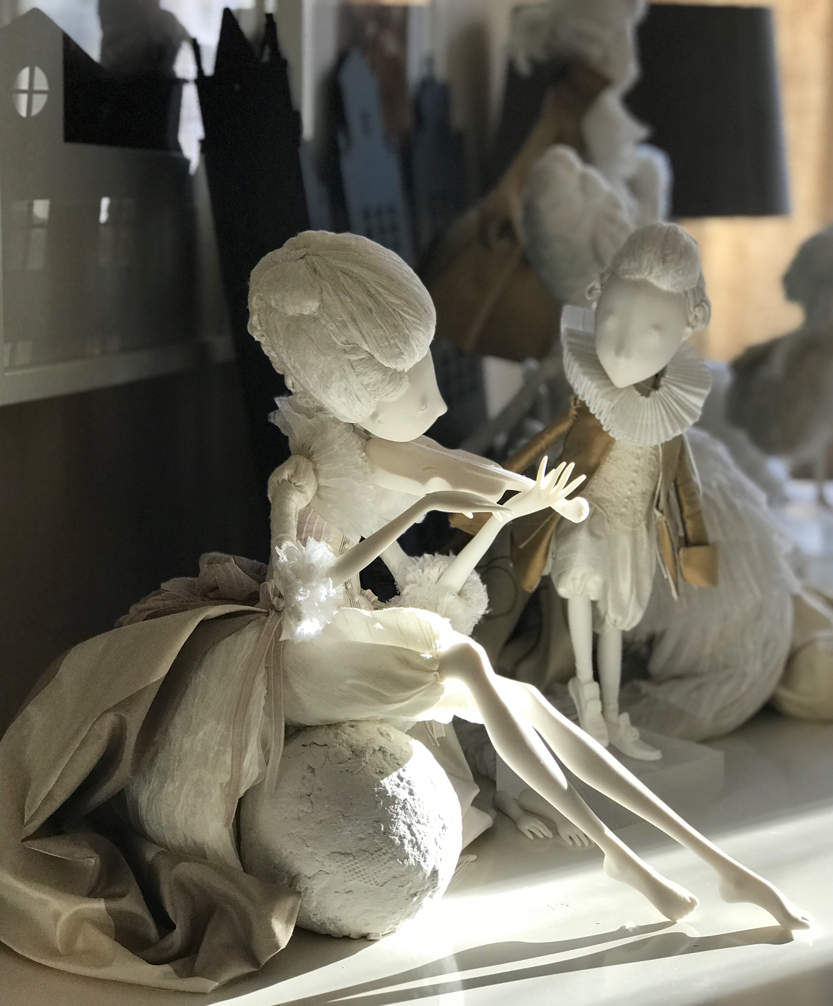 Exhibition of Doll Art and Marionettes ,Prague,2017